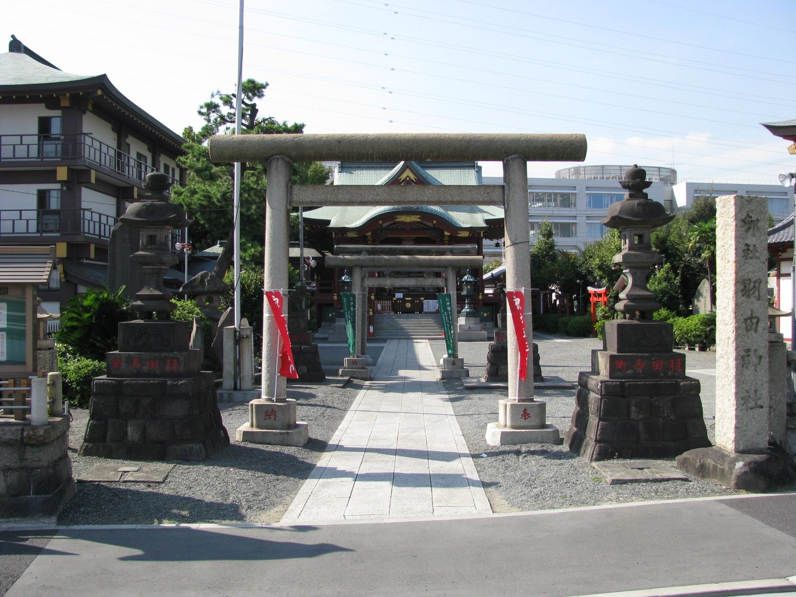 Haneda-jinjya(Haneda shrine) is located in Ota, Tokyo, Japan.